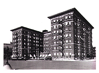 Former Buckingham Hotel, St. Louis, Missouri